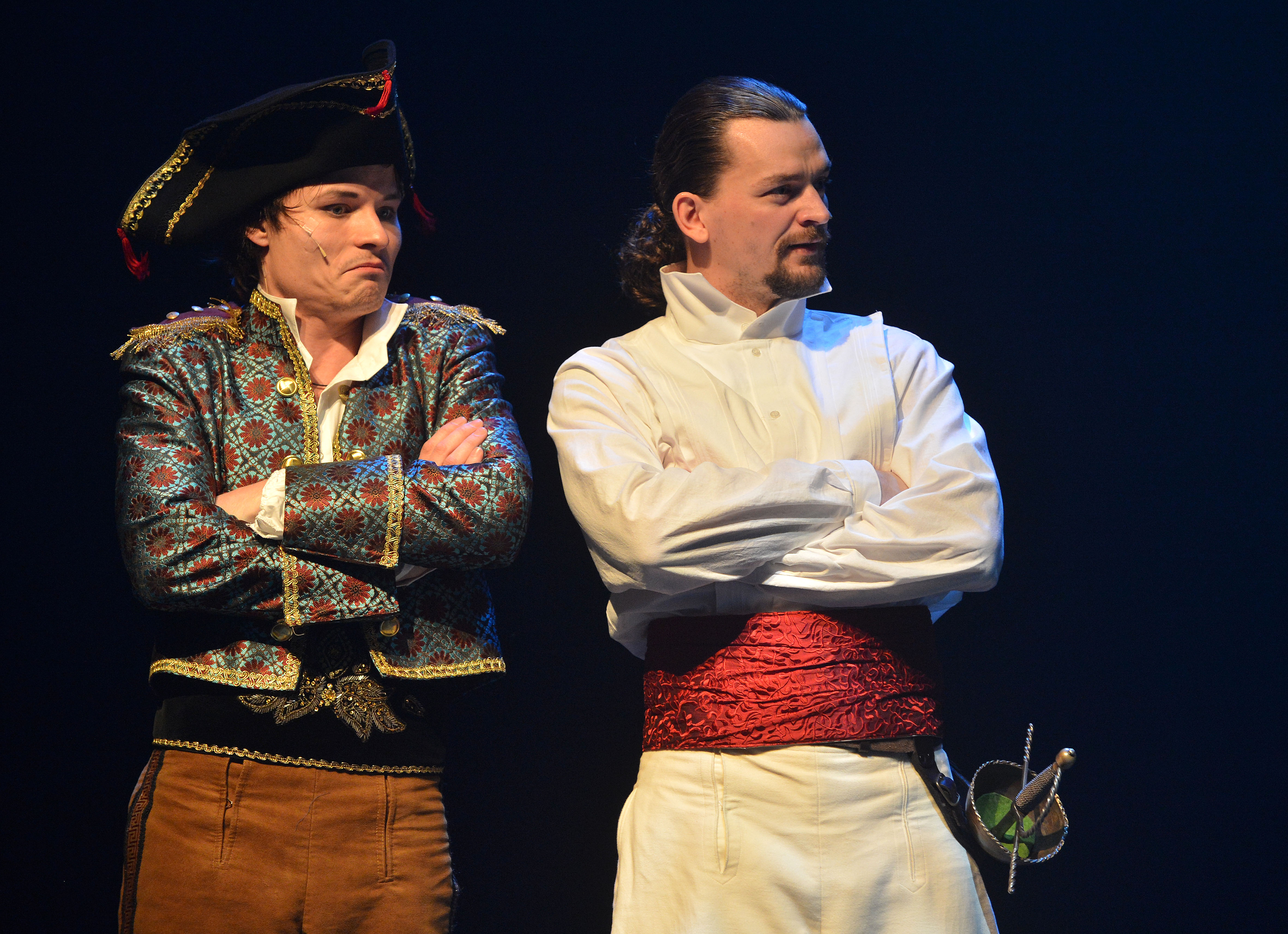 The musical Zorro by Brno City Theatre (Lukáš Janota, Dušan Vitázek)